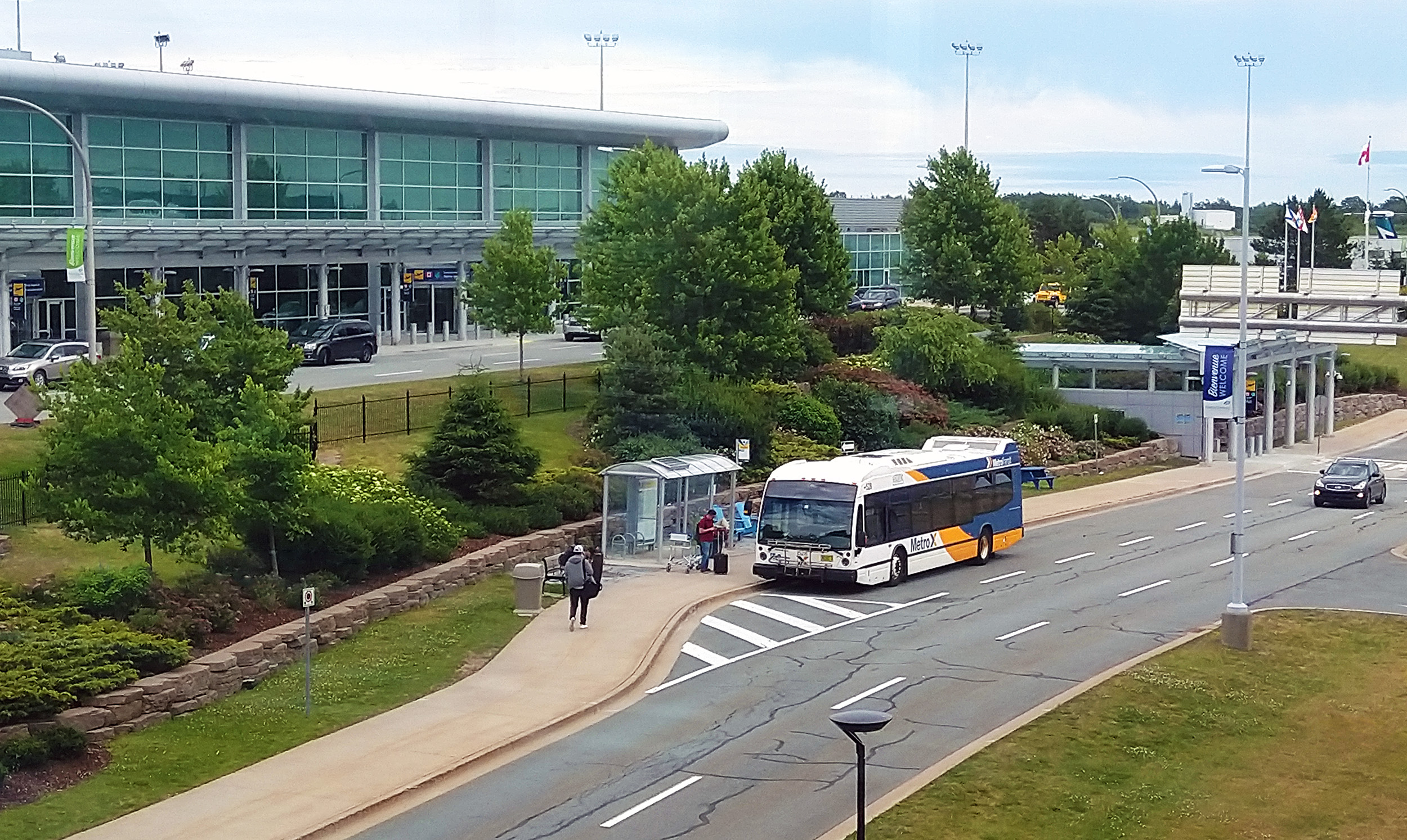 A MetroX bus parked at Halifax Airport in 2018.